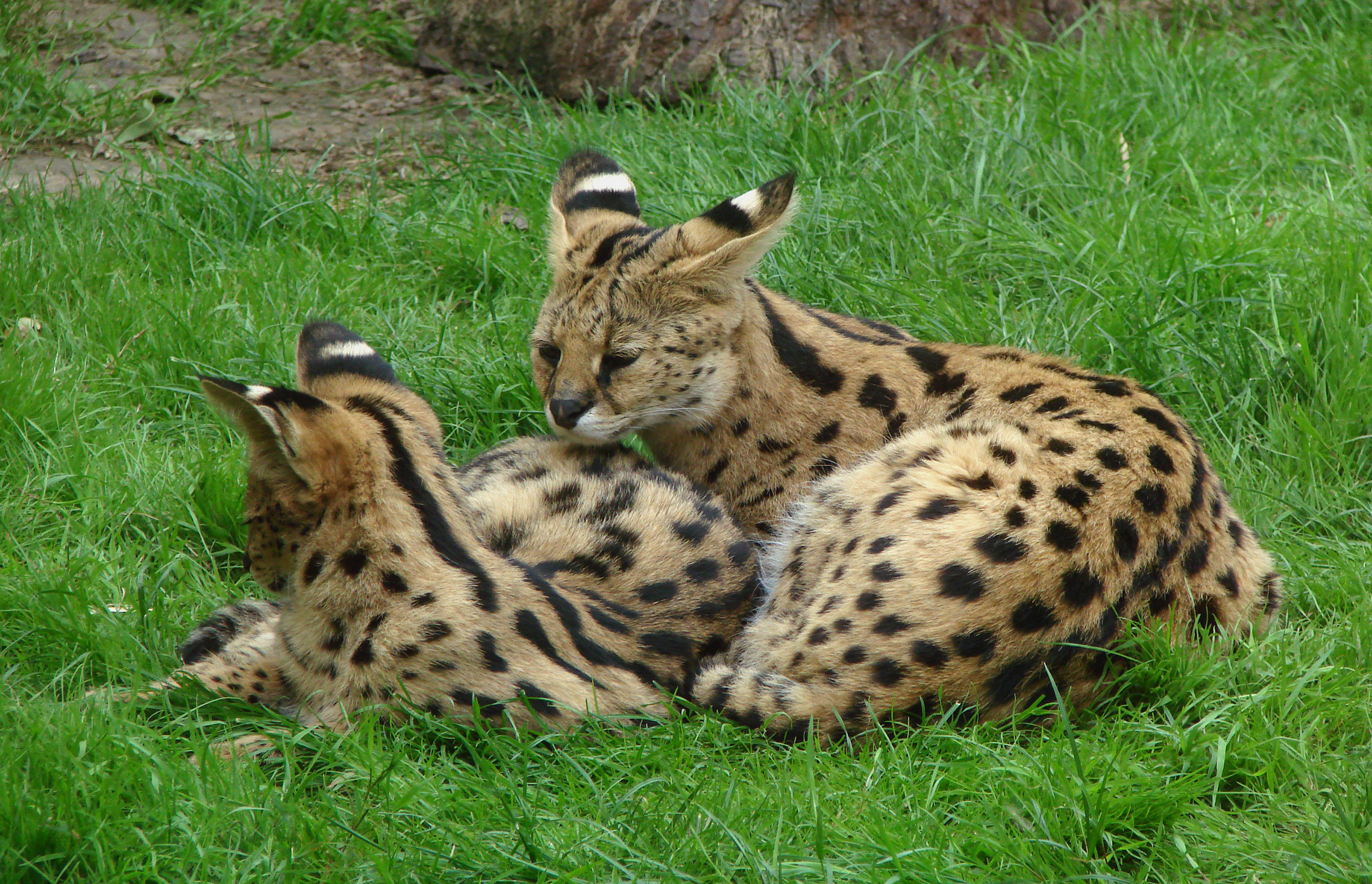 Two young servals (Leptailurus serval) in Thoiry Zoo.